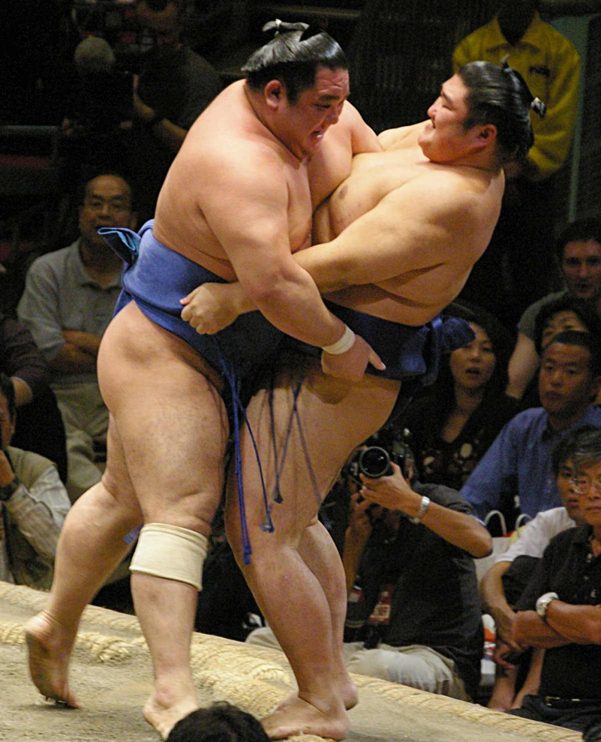 A sumo bout between Wakanosato and Kotomitsuki, Tokyo, October 2007